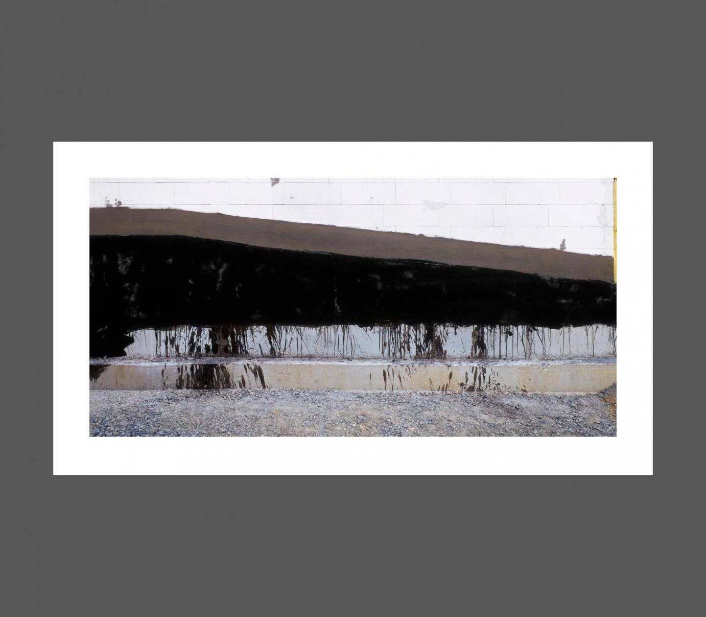 Site Photography by Ulrich Hensel, Düsseldorfer Straße, 2004, 293,2 x 175 cm, C-Print Diasec